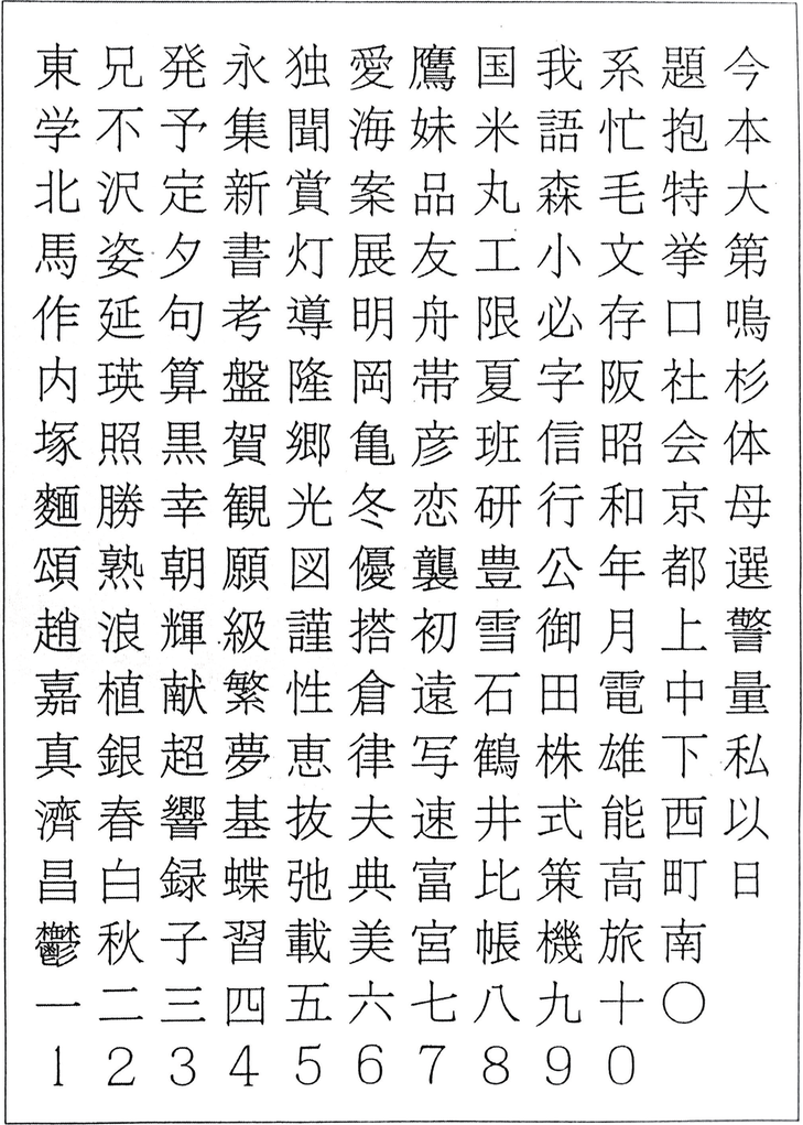 Typeface sample of Jomin (徐明), or Xīn Sòngtǐ (新宋体). 中文（中国大陆）: 新宋体/徐明的字体样张。